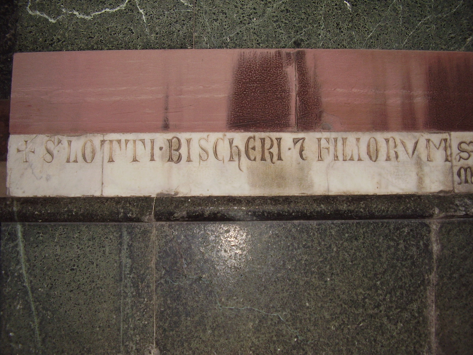 Bischeri family name on Santa Maria del Fiore south wall, external view, church in Florence, Italy.